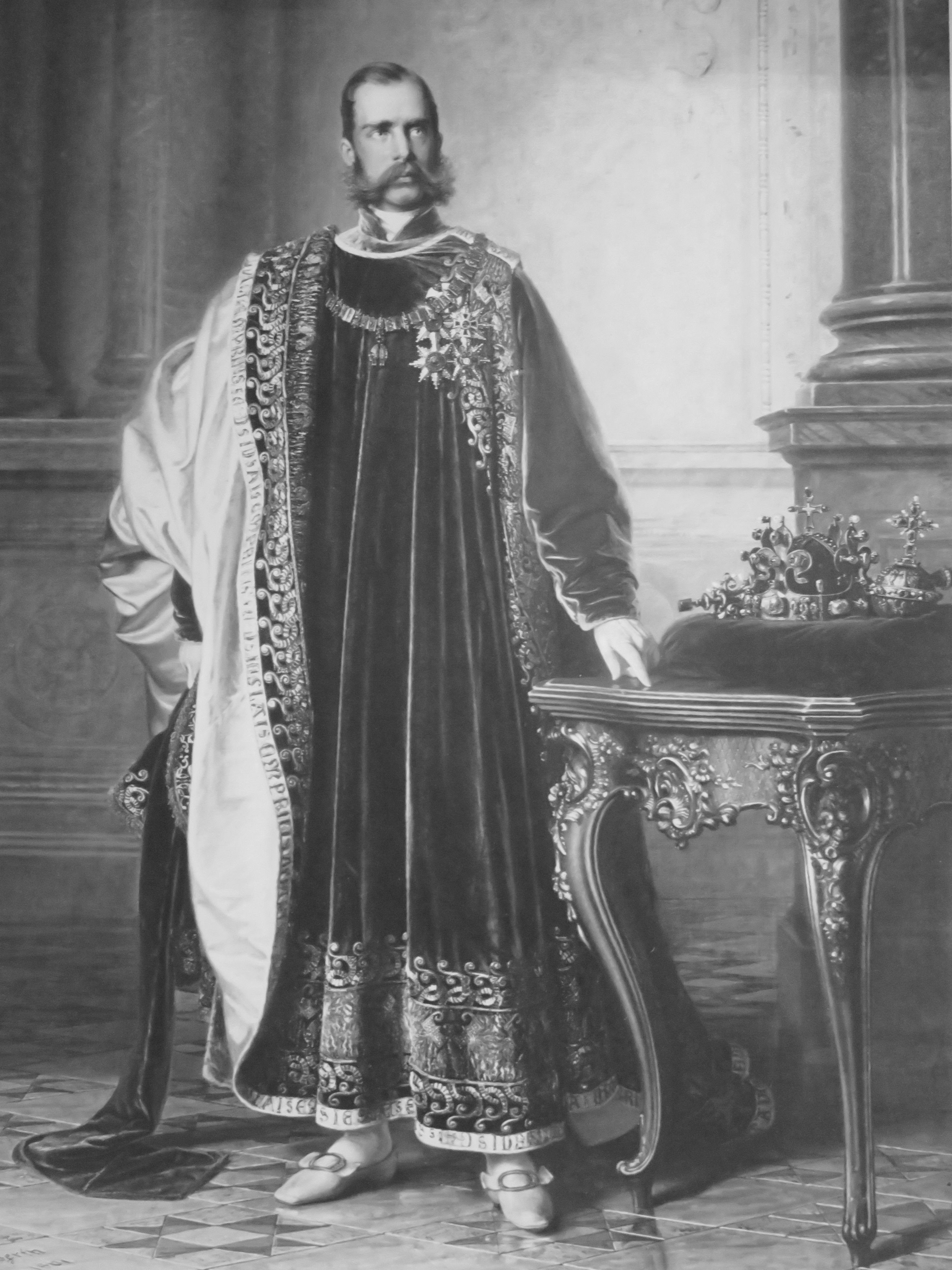 Emperor Franz Joseph in the robes of the Head and Sovereign of the Austrian Order of the Golden Fleece, next to the Crown of St. Wenceslas. Painted by Eduard von Engerth in Laxenburg 1861 for the Bohemian Diet in Prague, today in the collections of the National Museum in Prague.